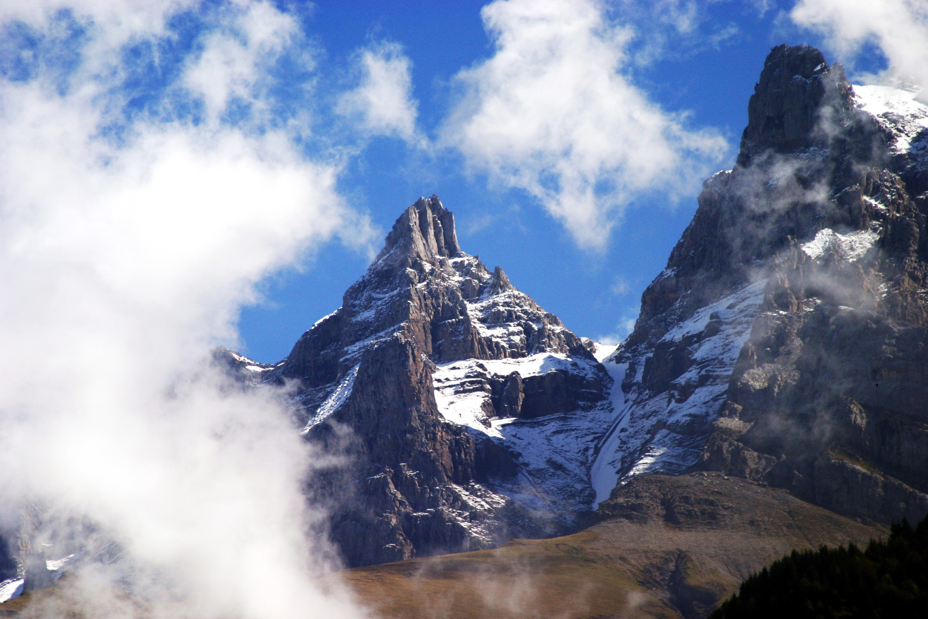 Dent Jaune, Dents du Midi